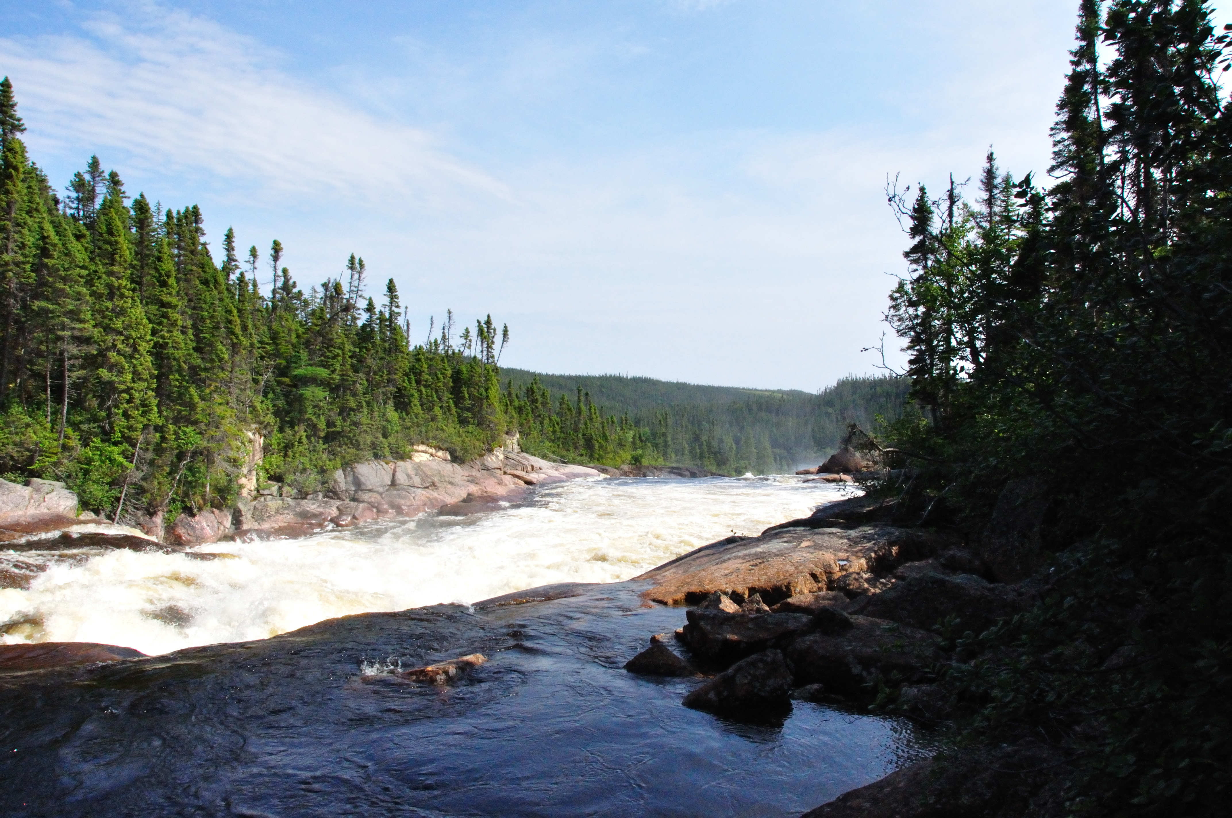 The Romaine river, near Havre-St-Pierre, Quebec.